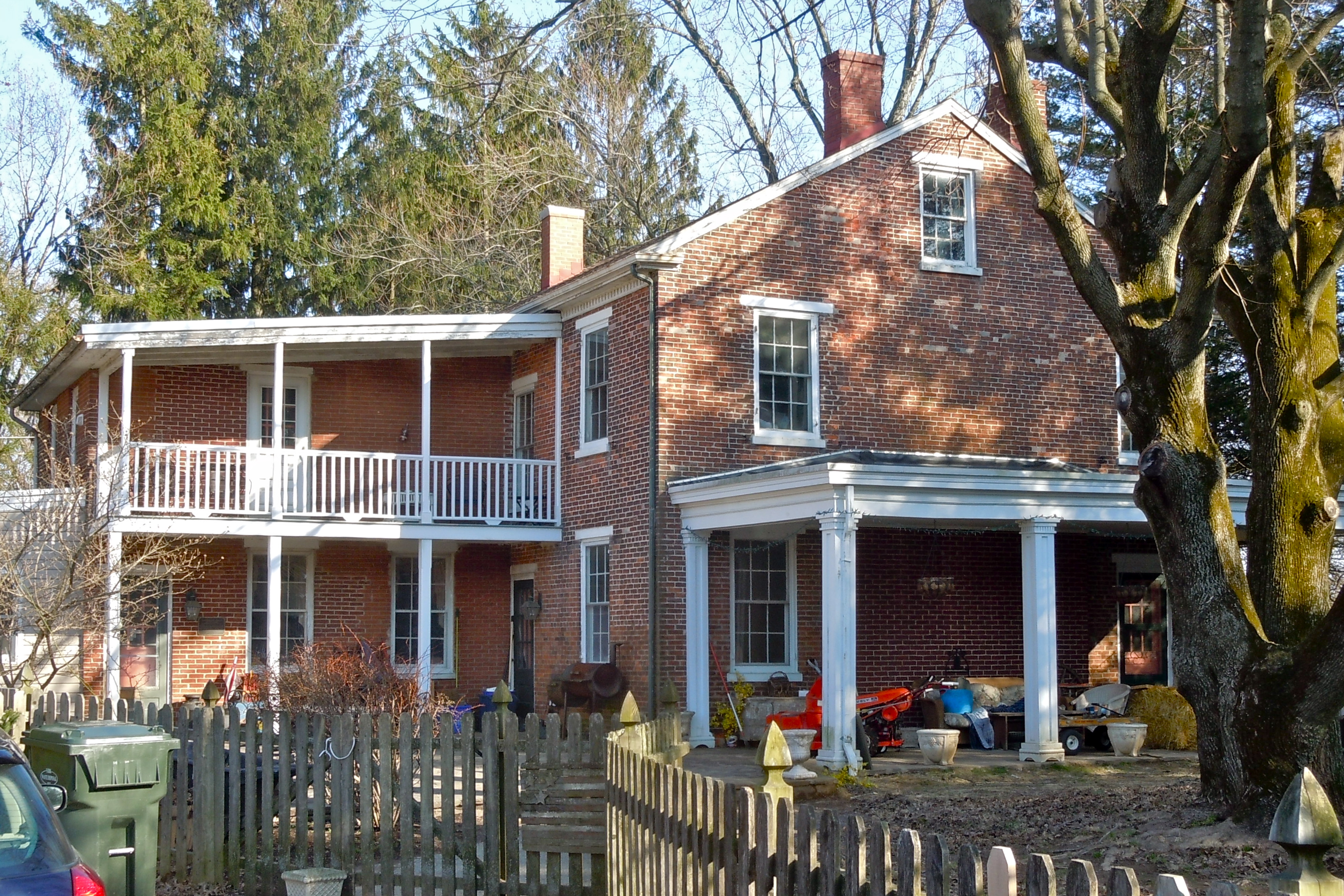 Robert Young House on the NRHP since September 18, 1985. On Strasburg Road near Coatesville in East Fallowfield Township, Chester County, Pennsylvania. Brick.